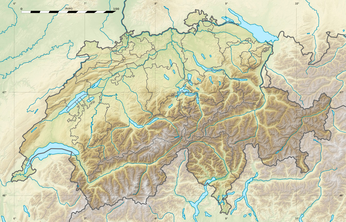 Blank physical map of Switzerland, for geo-location purpose.